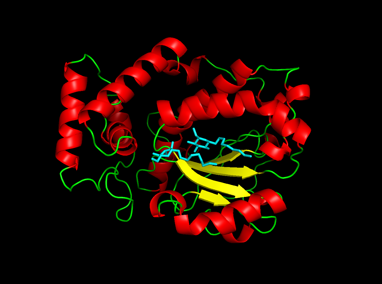 A figure of Sec14p protein, found in yeast